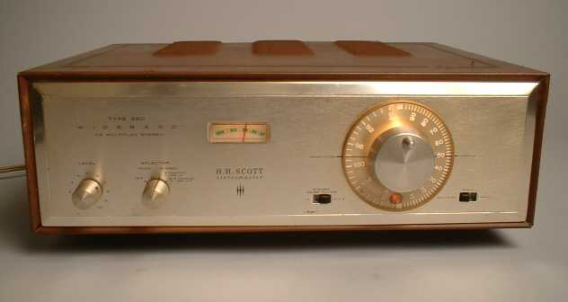 HH Scott Model 350 FM Multiplex Stereo Tube Tuner - One of the first FM muliplex Tuners in the US